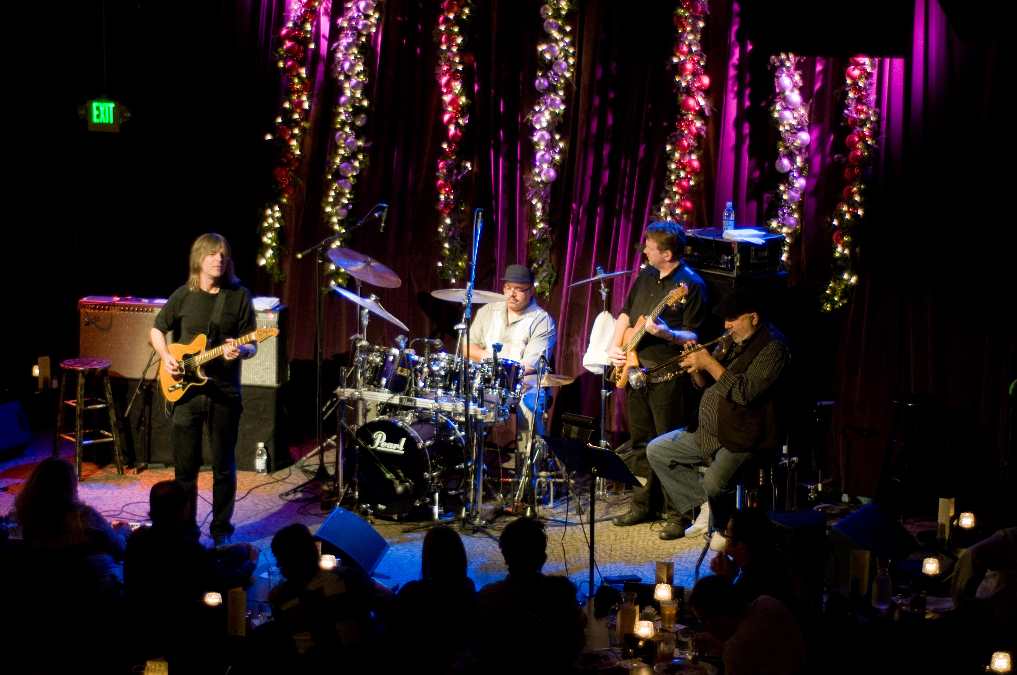 Mike Stern, Dennis Chambers, Tom Kennedy, and Randy Brecker at Jazz Alley (7), 2010-12-08